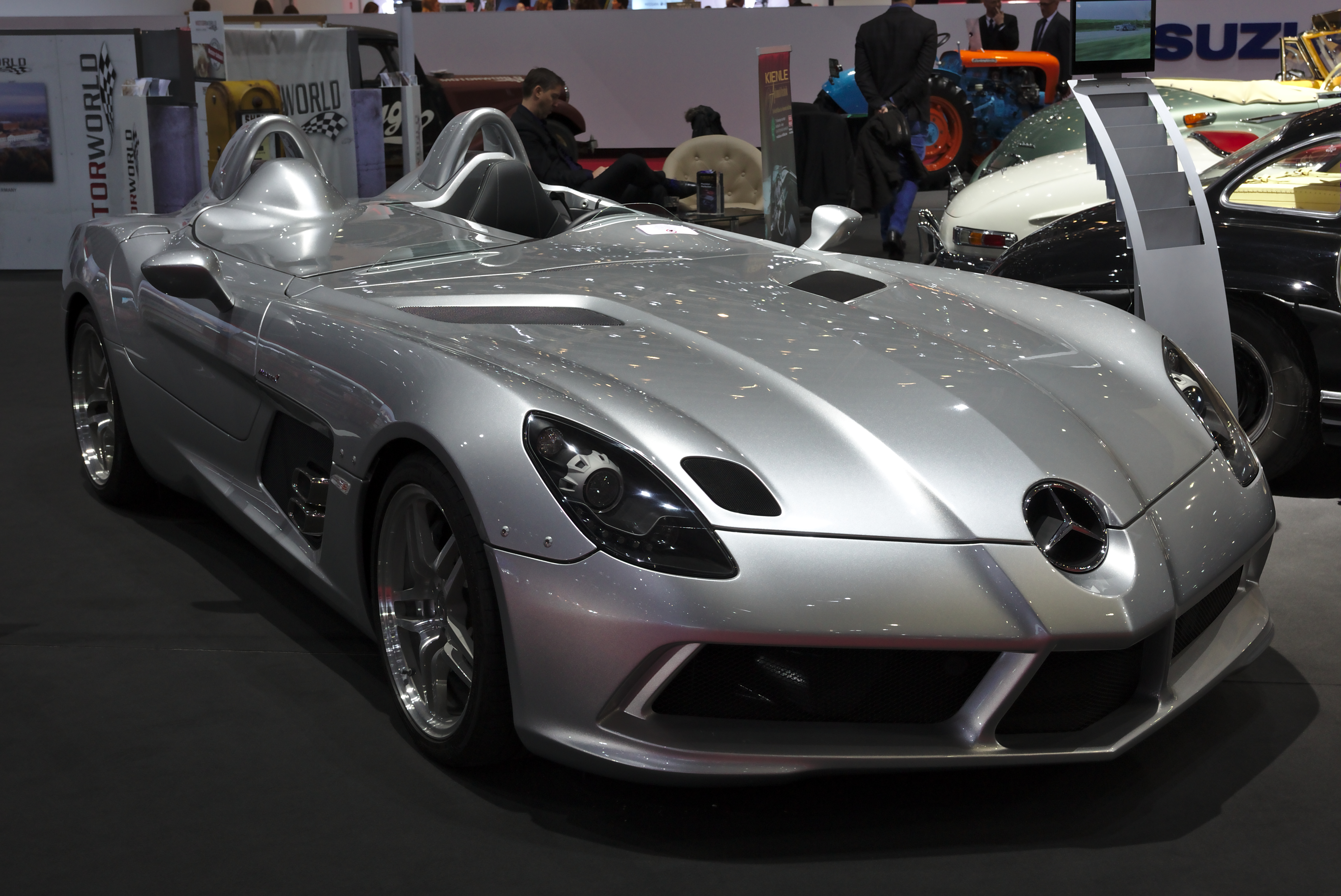 Mercedes-Benz SLR McLaren Stirling Moss at Geneva Motor Show 2019